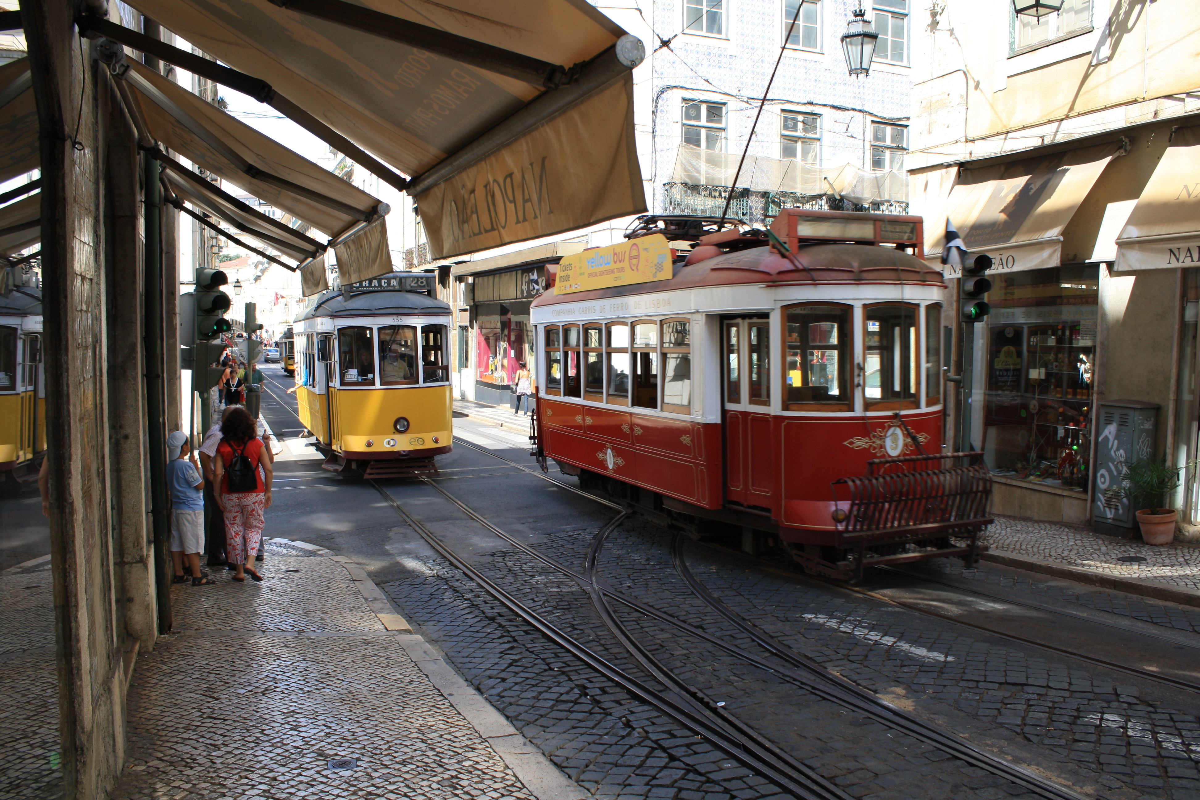 yellow and red tram of Lisbon tramways company Carris in Rua da Conceição (Conception [Church] Street).